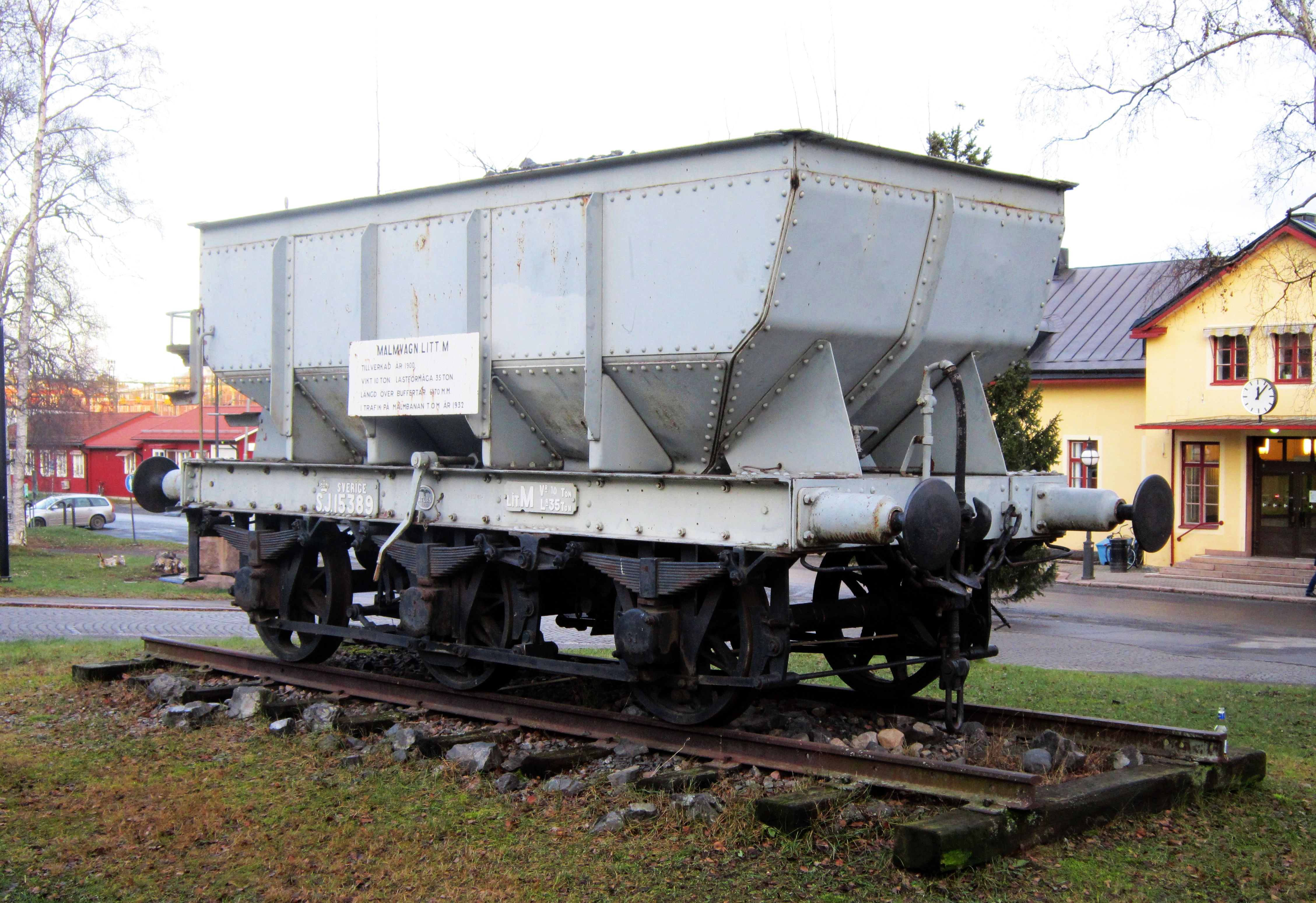 Iron ore hopper car from Iron Ore Line, Sweden. Built 1900, in service till 1932, now at Luleå Central Station